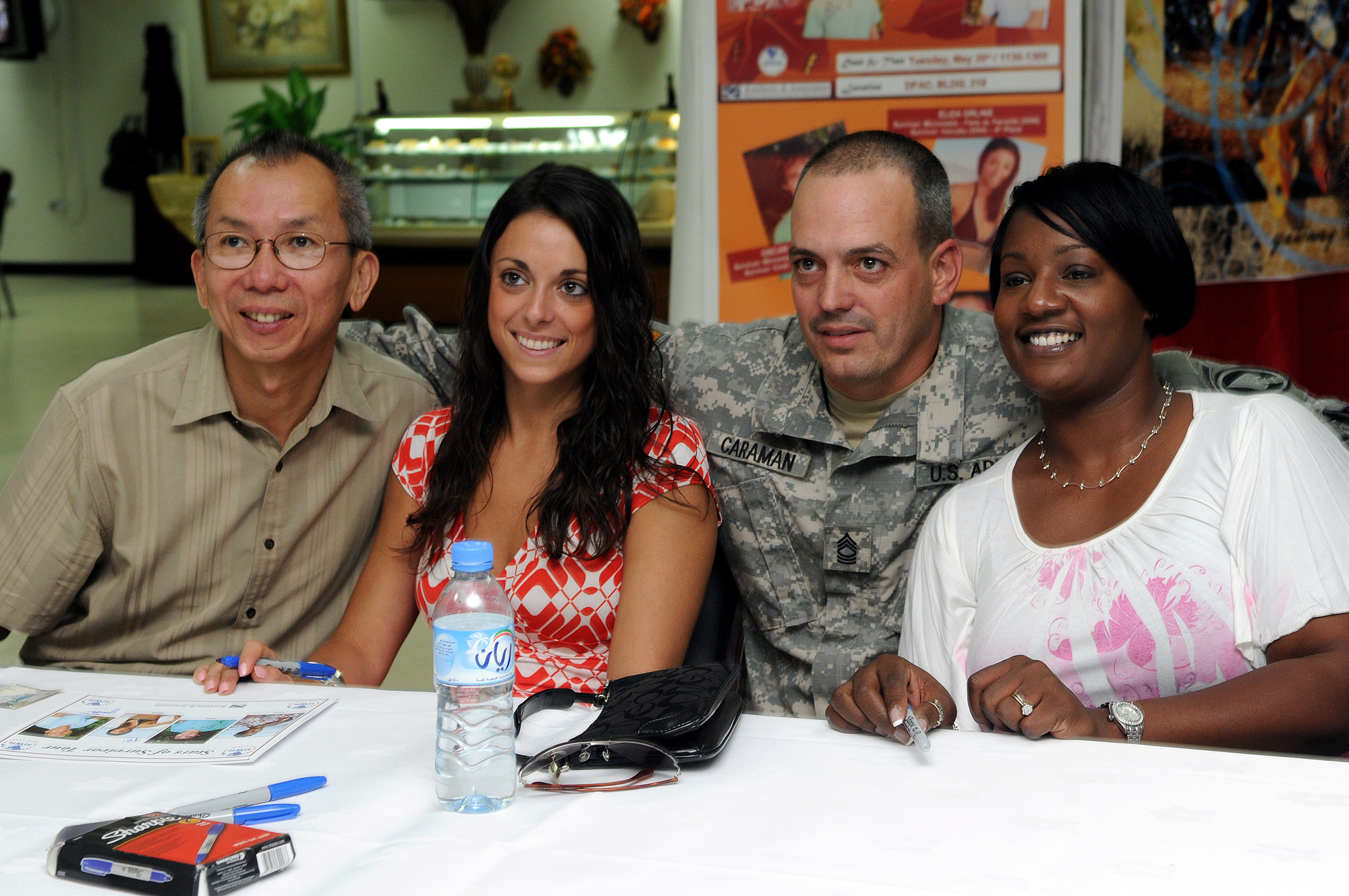 U.S. Army Master Sgt. Kieth Caraman, from Tampa, Fla., takes a photograph with Yau-man Chan, Eliza Orlins and Cirie Fields at Camp As Sayliyah, May 20. Chan, Orlins and Fields are former participants in the popular reality-television series 'Survivor.' They were touring U.S. military installations in Southwest Asia to show support for U.S. troops. In the show, each contestant was isolated in a remote location to compete for cash and prizes. They were touring U.S. military installations in Southwest Asia to show support for U.S. troops. "My family is full of 'Survivor' addicts - nobody is allowed to work Thursday nights when the show is on! I think it's awesome they came out here."